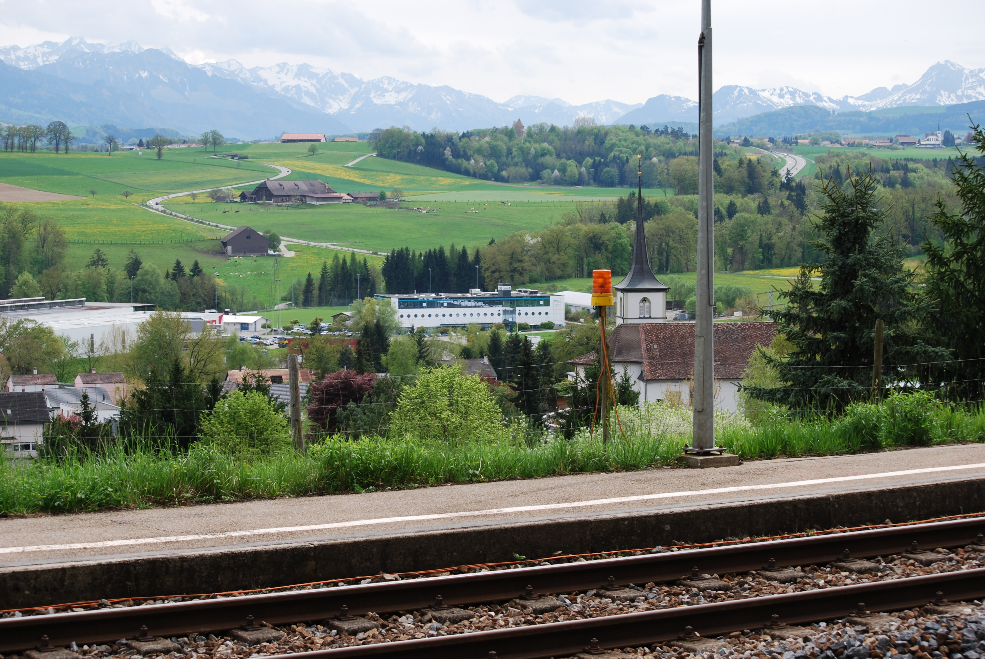 Catholic Church of Matran, canton of Fribourg, Switzerland